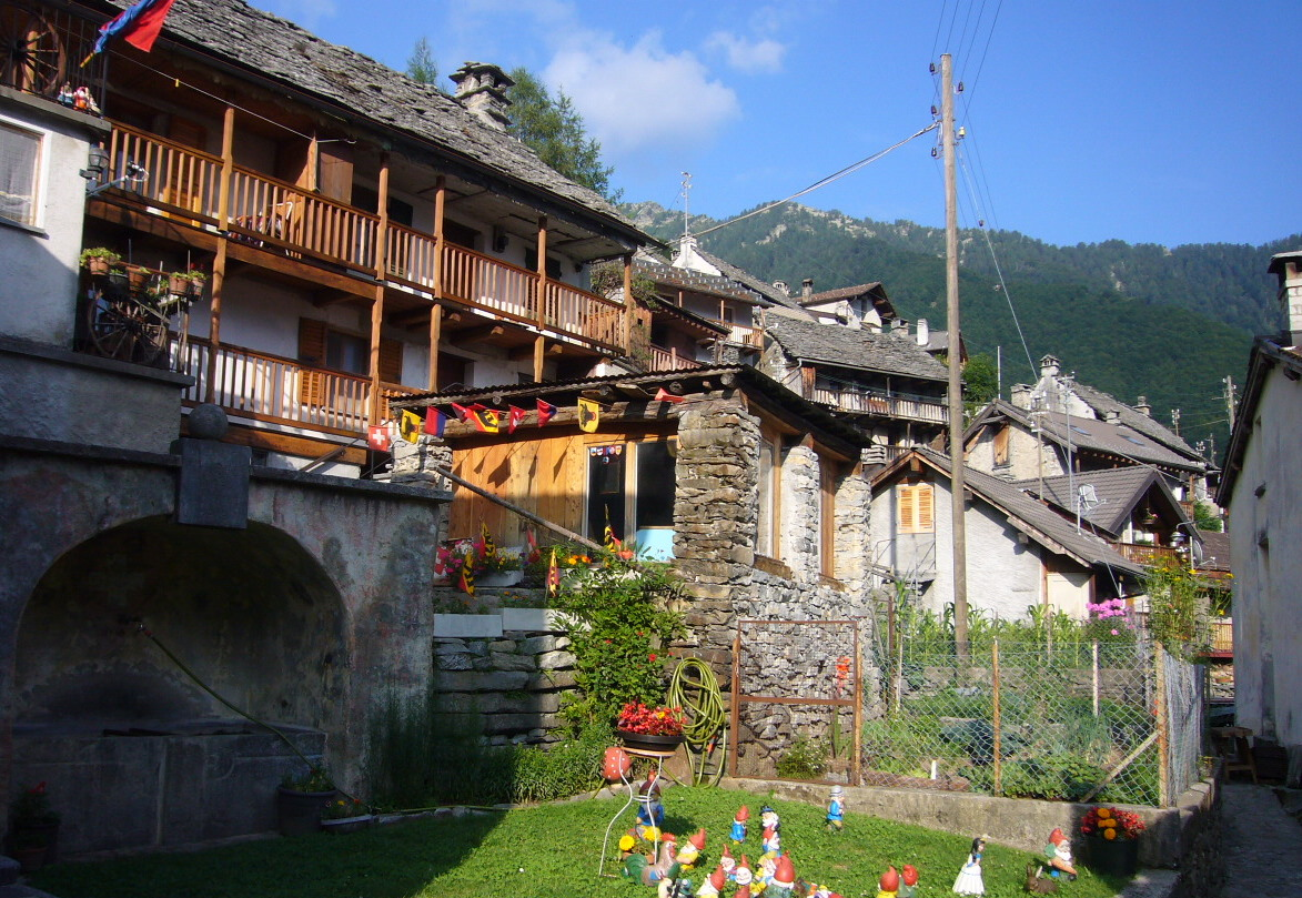 Gresso